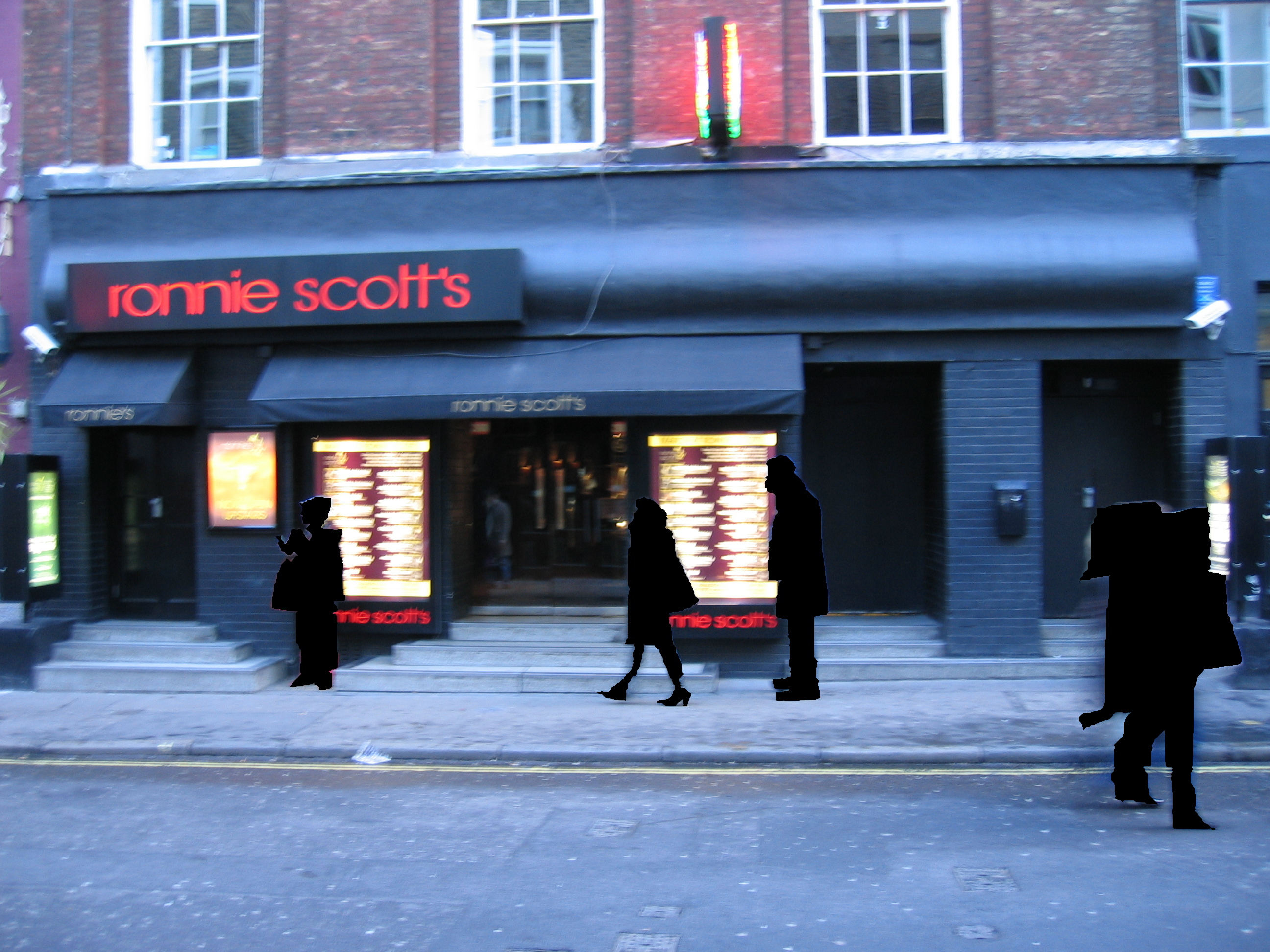 Front entrance, Ronnie Scott's Jazz Club in 2008